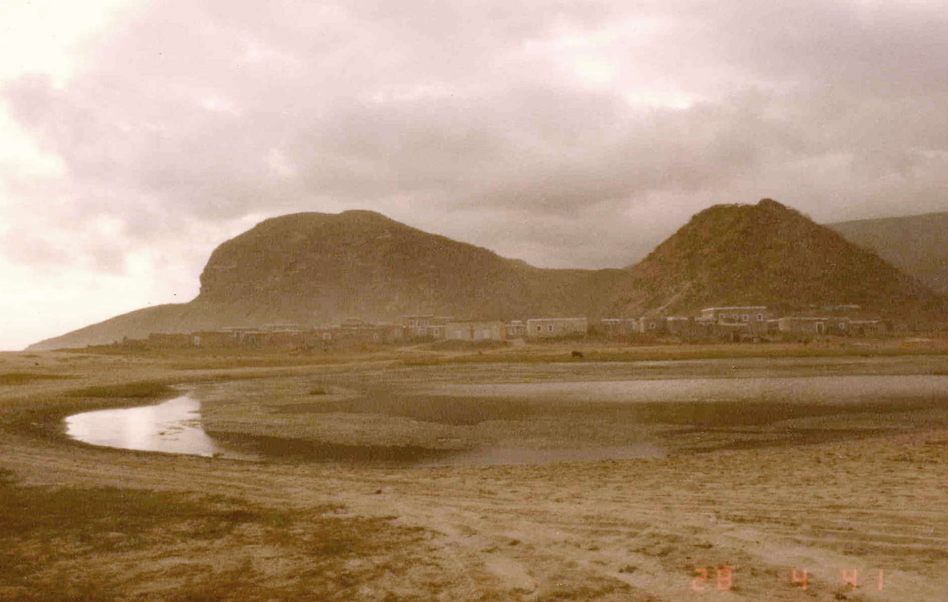 Dhofar in southern Oman - the remote port of Rakhyut.